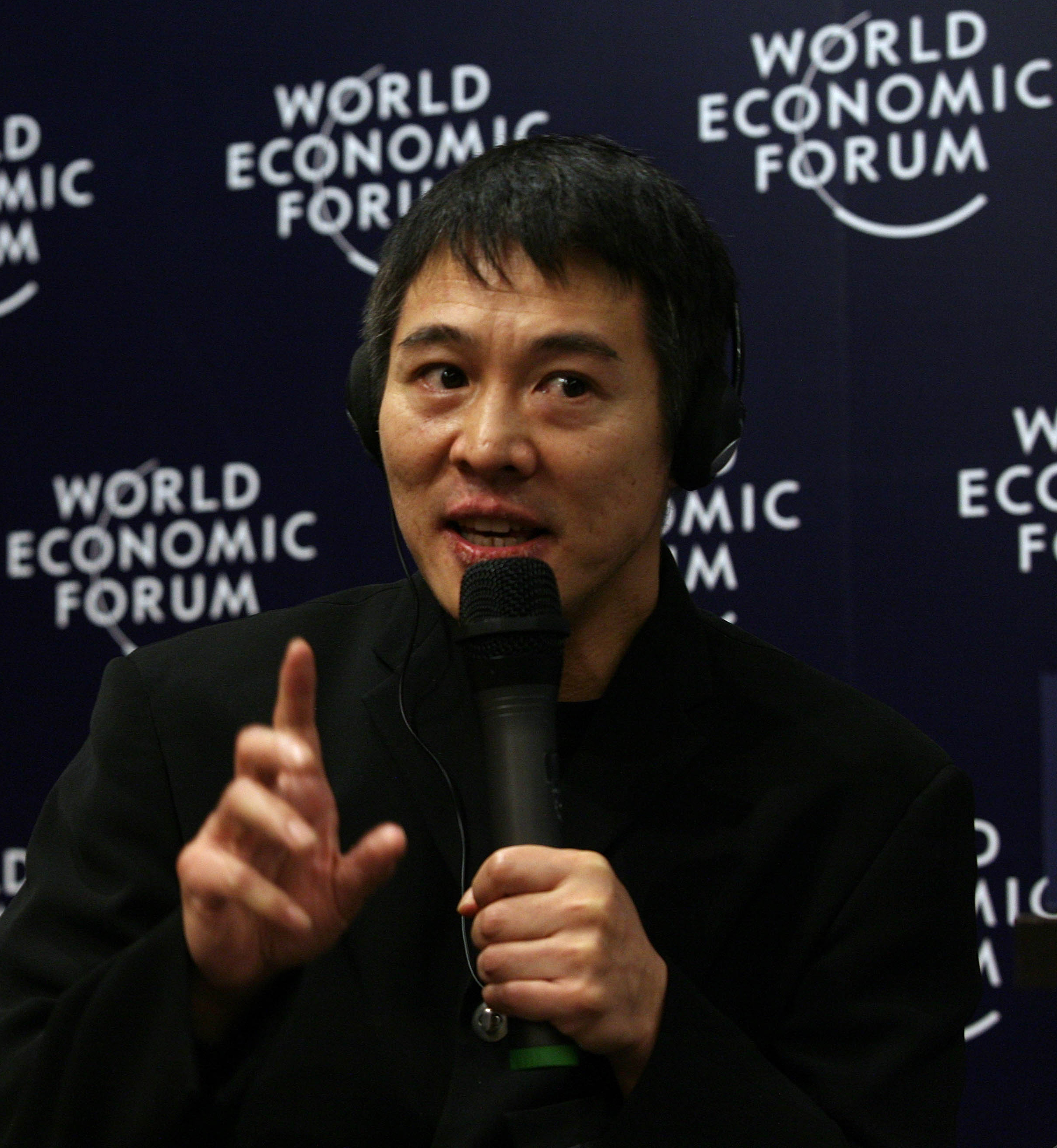 TIANJIN/CHINA, 28SEPT08 - Jet Li, actor and Founder of the One Foundation, speaks at the World Economic Forum Annual Meeting of the New Champions in Tianjin, China 28 September 2008. Copyright World Economic Forum ( by Natalie Behring